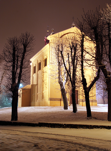 Church s. Jakub in Čížkovice (Czech Republic)